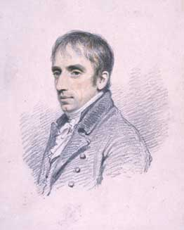 Henry Eldridge - William Wordsworth, pencil, c. 1807, Wordsworth Museum (Dove Cottage, Grasmere)